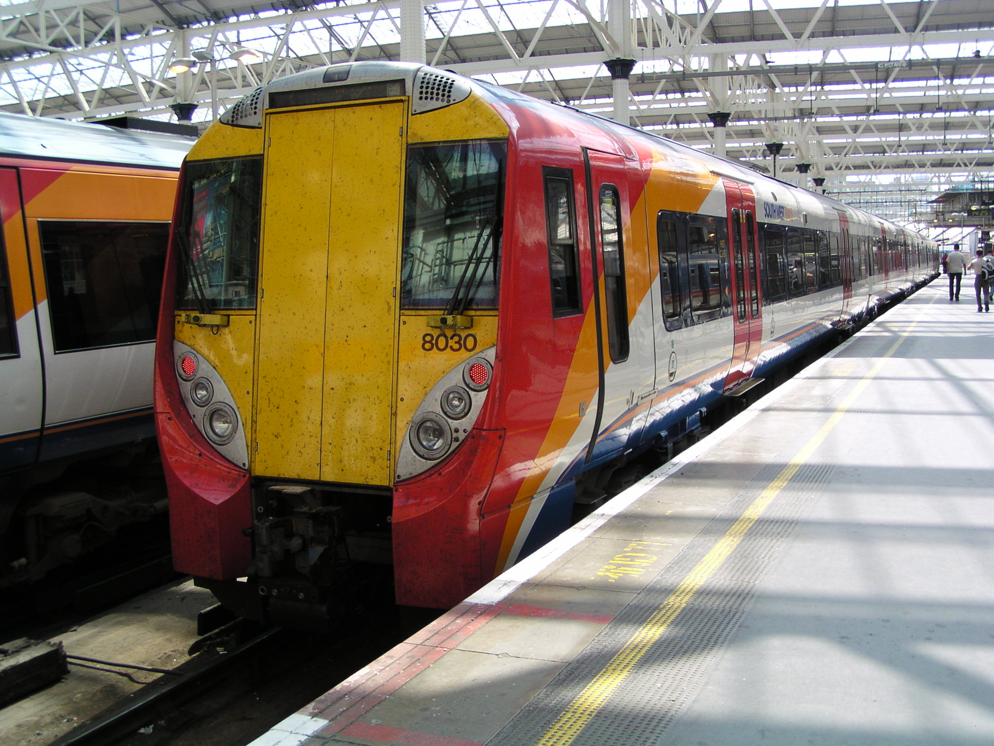 BR Class 458, no. 8030, at London Waterloo on 19th July 2003. This unit is painted in South West Trains mainline livery.